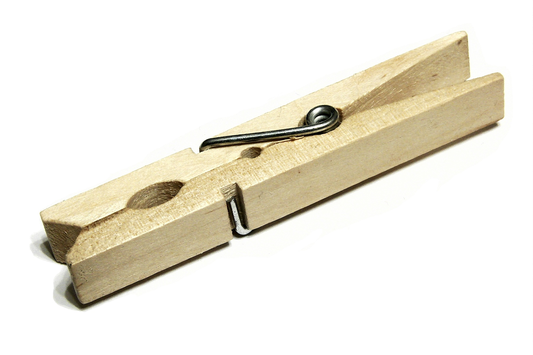 Wooden spring-type clothespin.